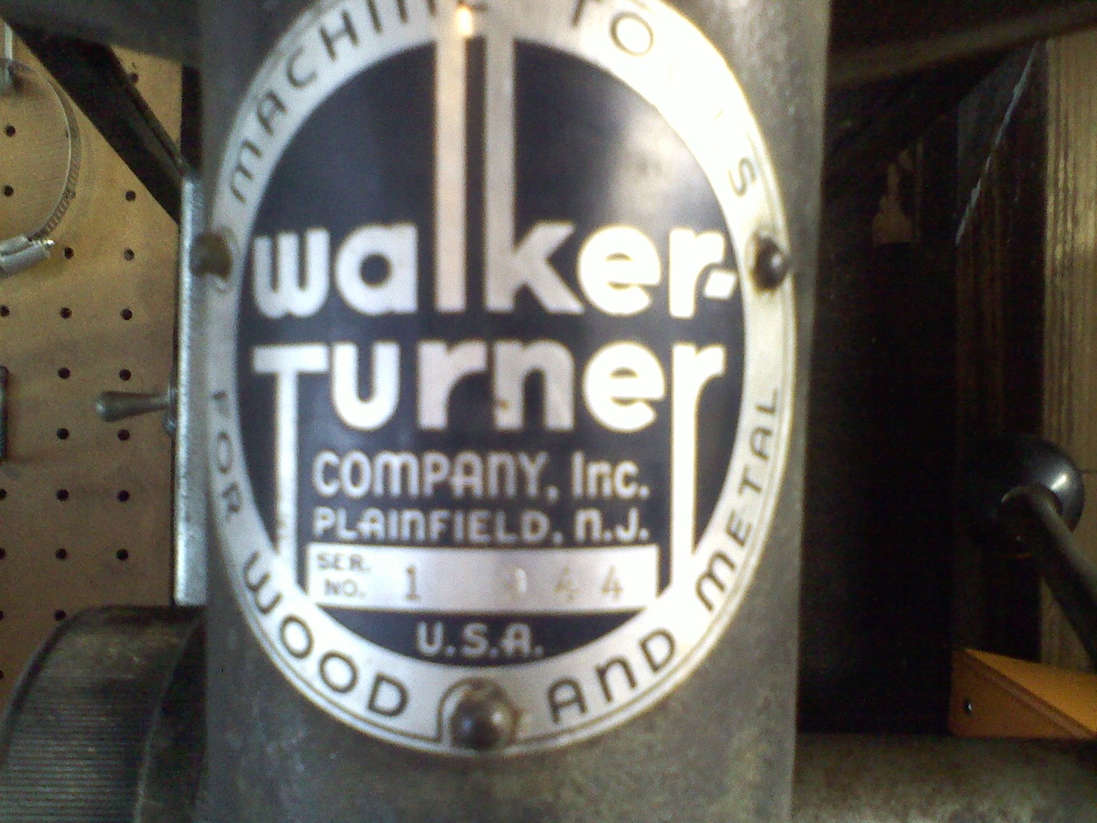 Nameplate to a Walker-Turner Drill Press with serial numbers shown